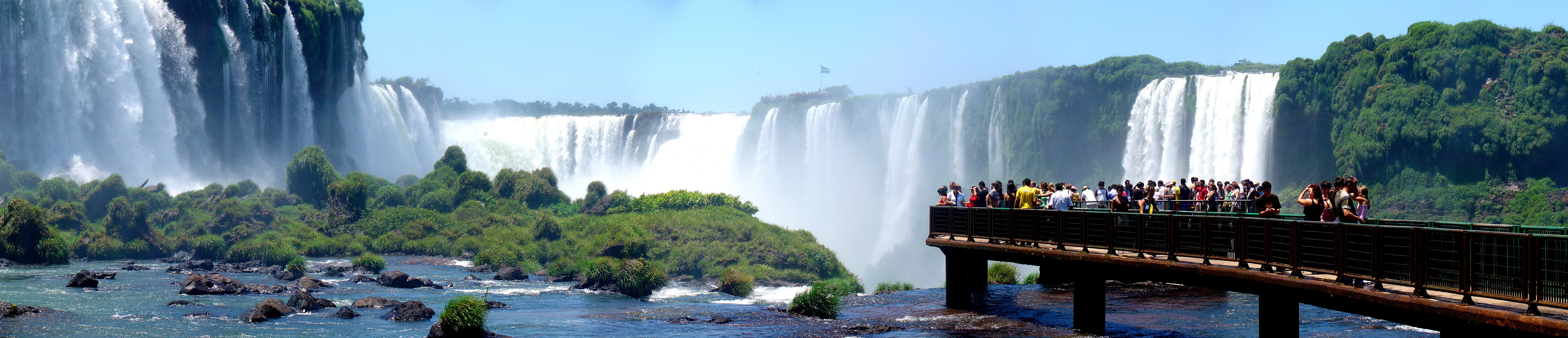 Iguazu Falls, in Paraná (Brazil).